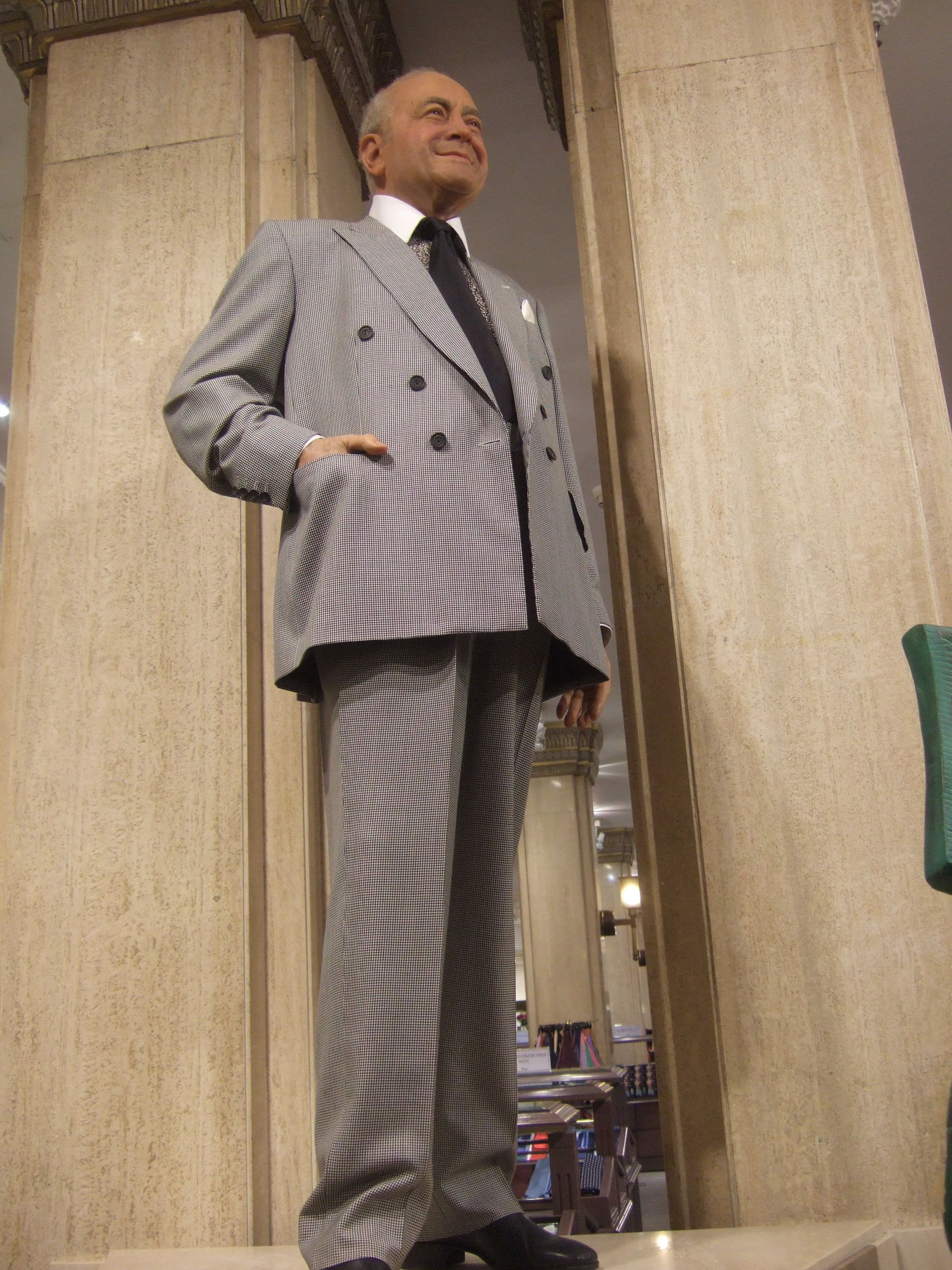 Wax statue of Mohamed Al-Fayed